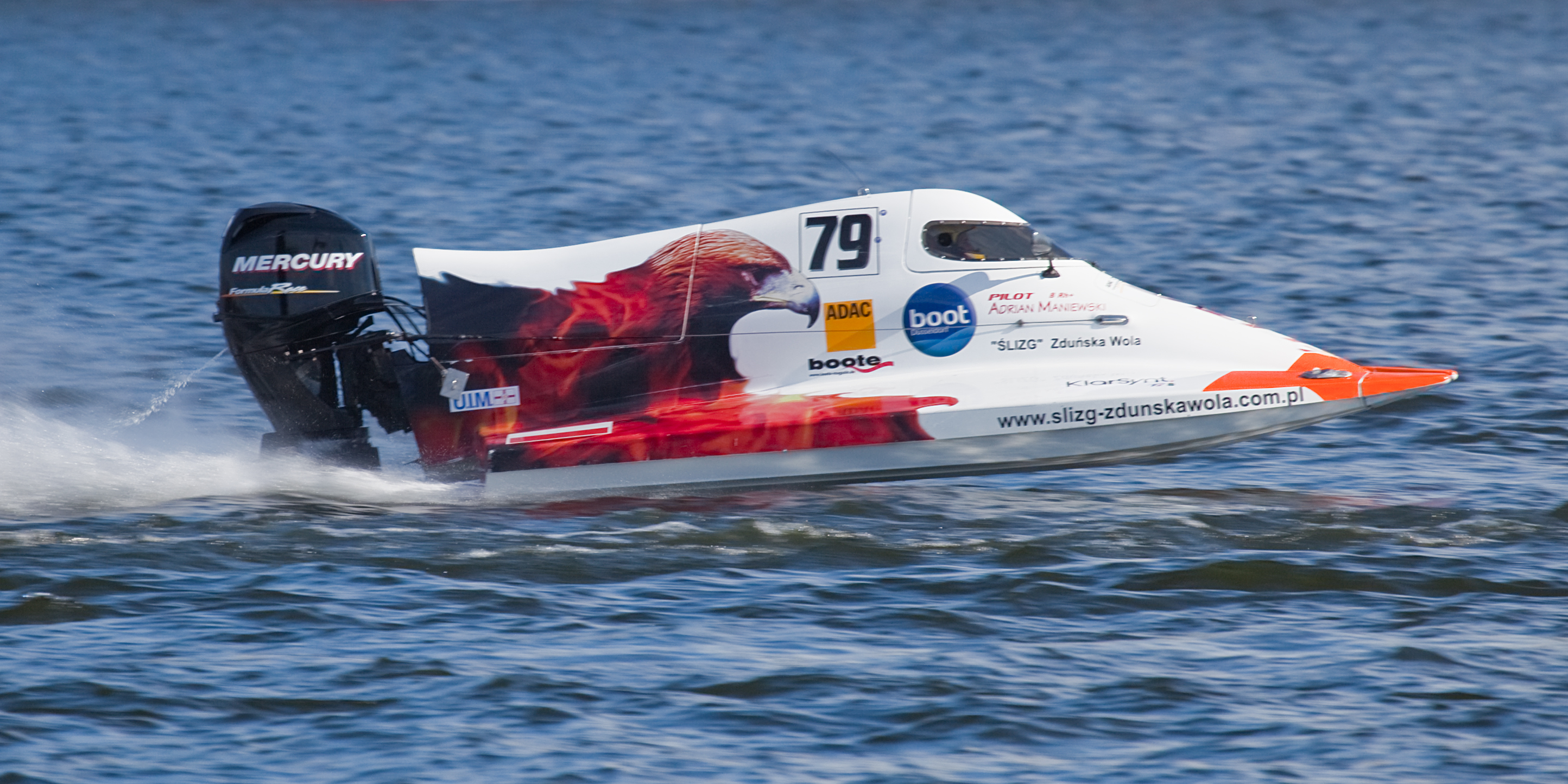 World and European F2 & F4 Championships at Riddarfjärden Stockholm June 2012